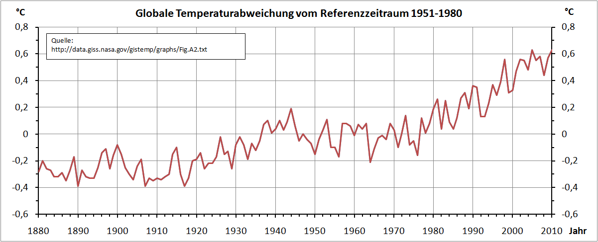 Global temperature anomaly.